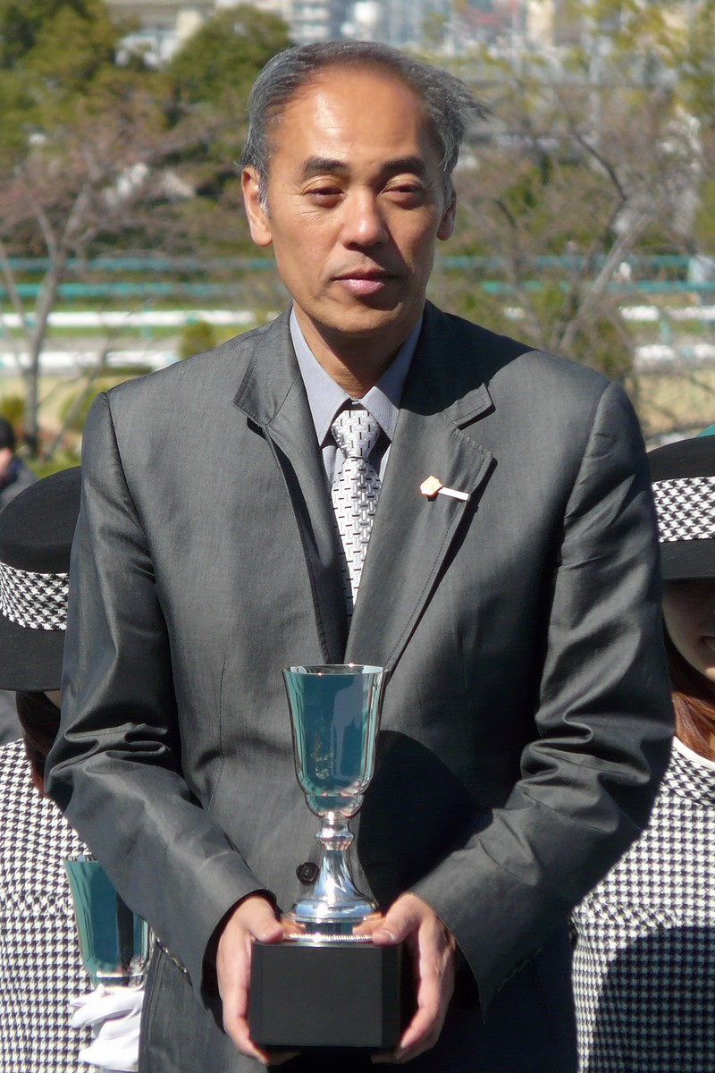 Hideyuki-Mori20100321